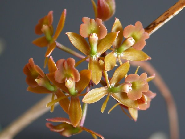 Epidendrum anceps